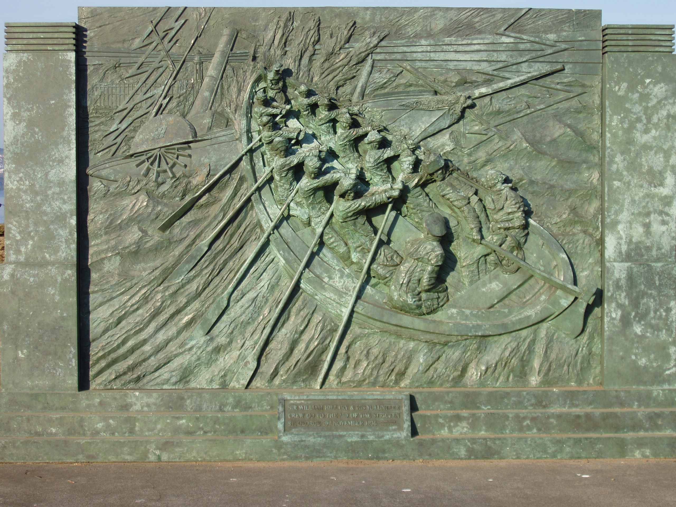 Memorial on the Loch Promenade to Sir William Hillary and his crew who safely rescued the sailors from the St George which had shipwrecked upon Connister Rock (St Mary's Isle) in 1830. This accident prompted Hillary, who six years prior had founded what would become the present-day Royal National Lifeboat Institution (RNLI), to push for the construction of the Tower of Refuge. The plaque at the bottom reads "Sir William Hillary & his volunteer crew go to the aid of the stricken St. George 20th November 1830".